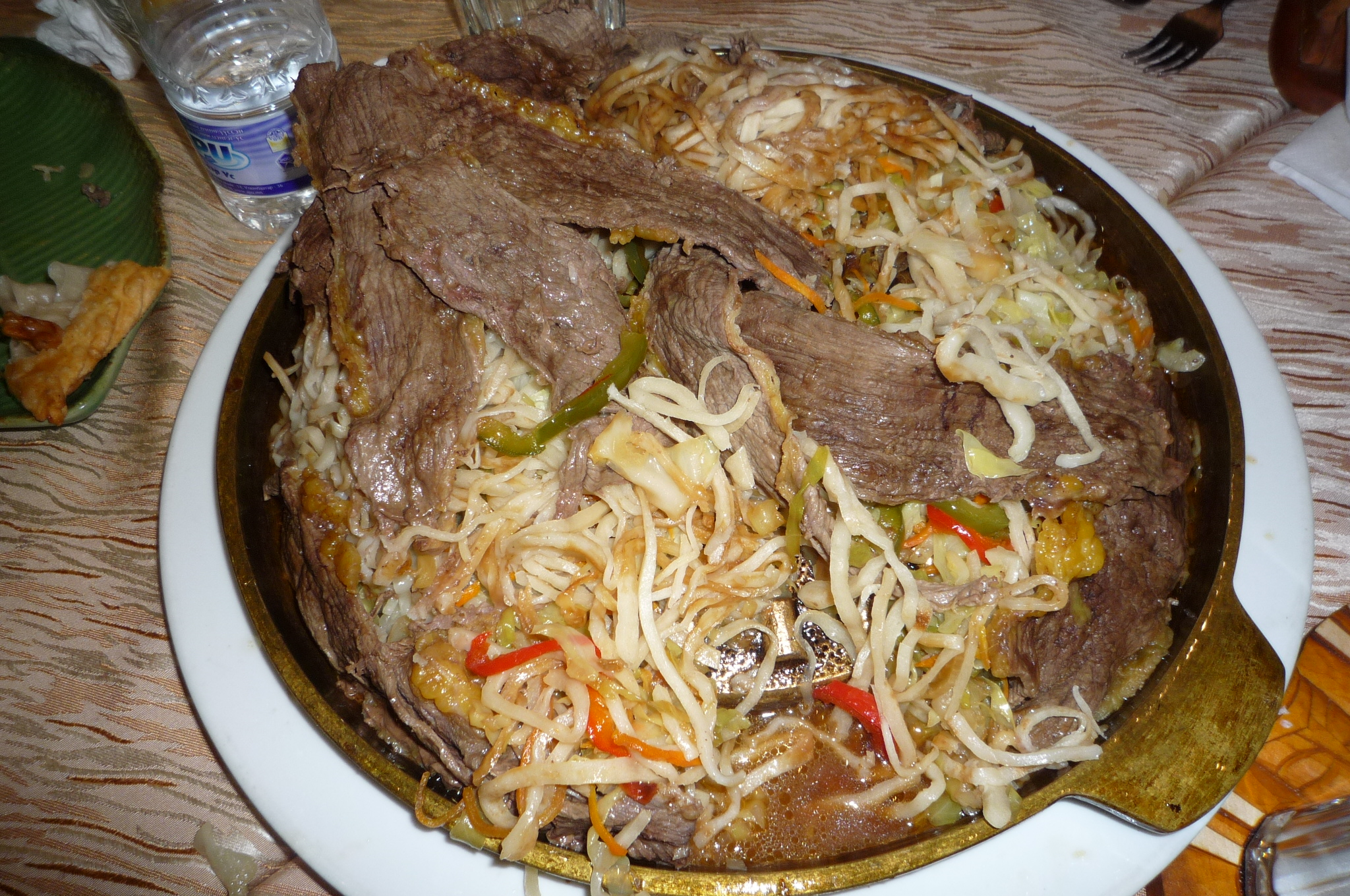 Mongolian steamed sliced noodles and mixed vegetables covered by beef)